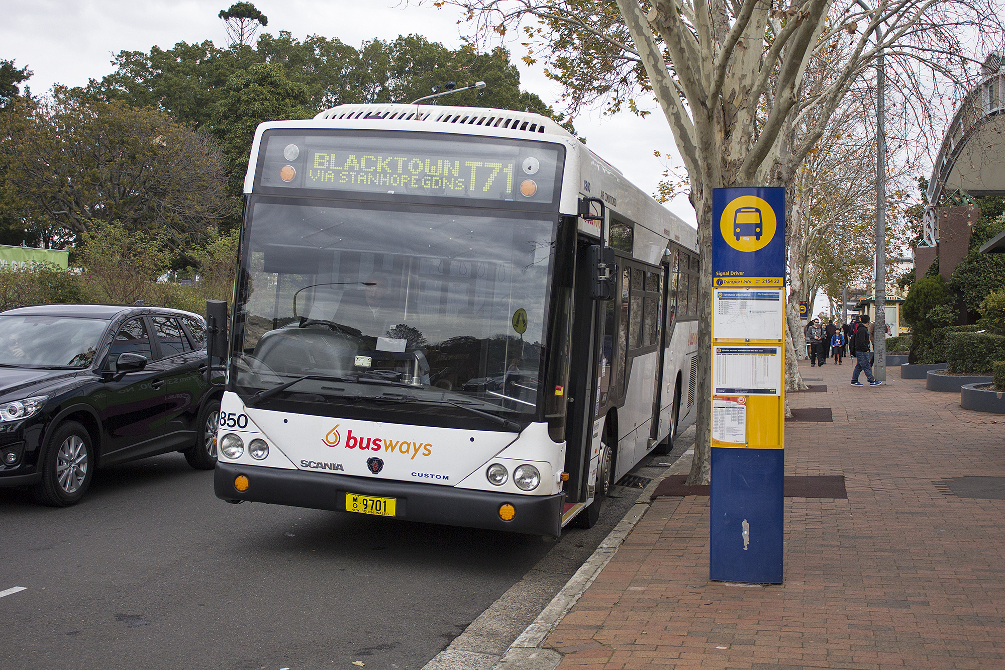 Busways (mo 9701) Custom Coaches 'CB60' bodied Scania K230UB at Castle Hill Interchange in Castle Hill, New South Wales.